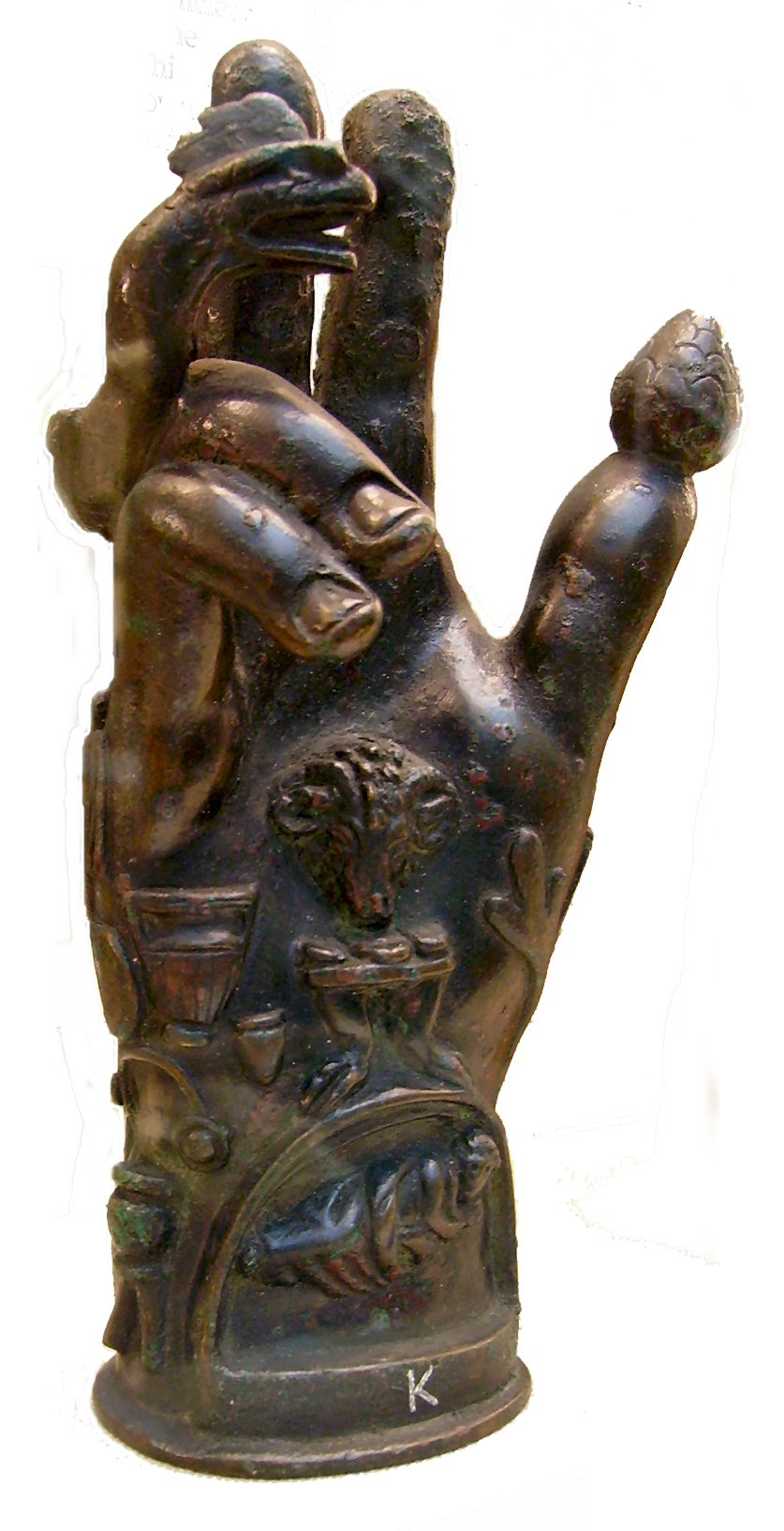 Bronze hand used in the worship of Sabazius. Roman, 1st-2nd century AD Sabazius, a god of Thracian or Anatolian origin, became popular in the Roman Empire, and had connections both with Jupiter and Dionysos. Hands decorated with religious symbols were designed to stand in sanctuaries or, like this one, were attached to poles for processional use. British Museum Cat. Bronzes 876 Museum number 1824,0441.1